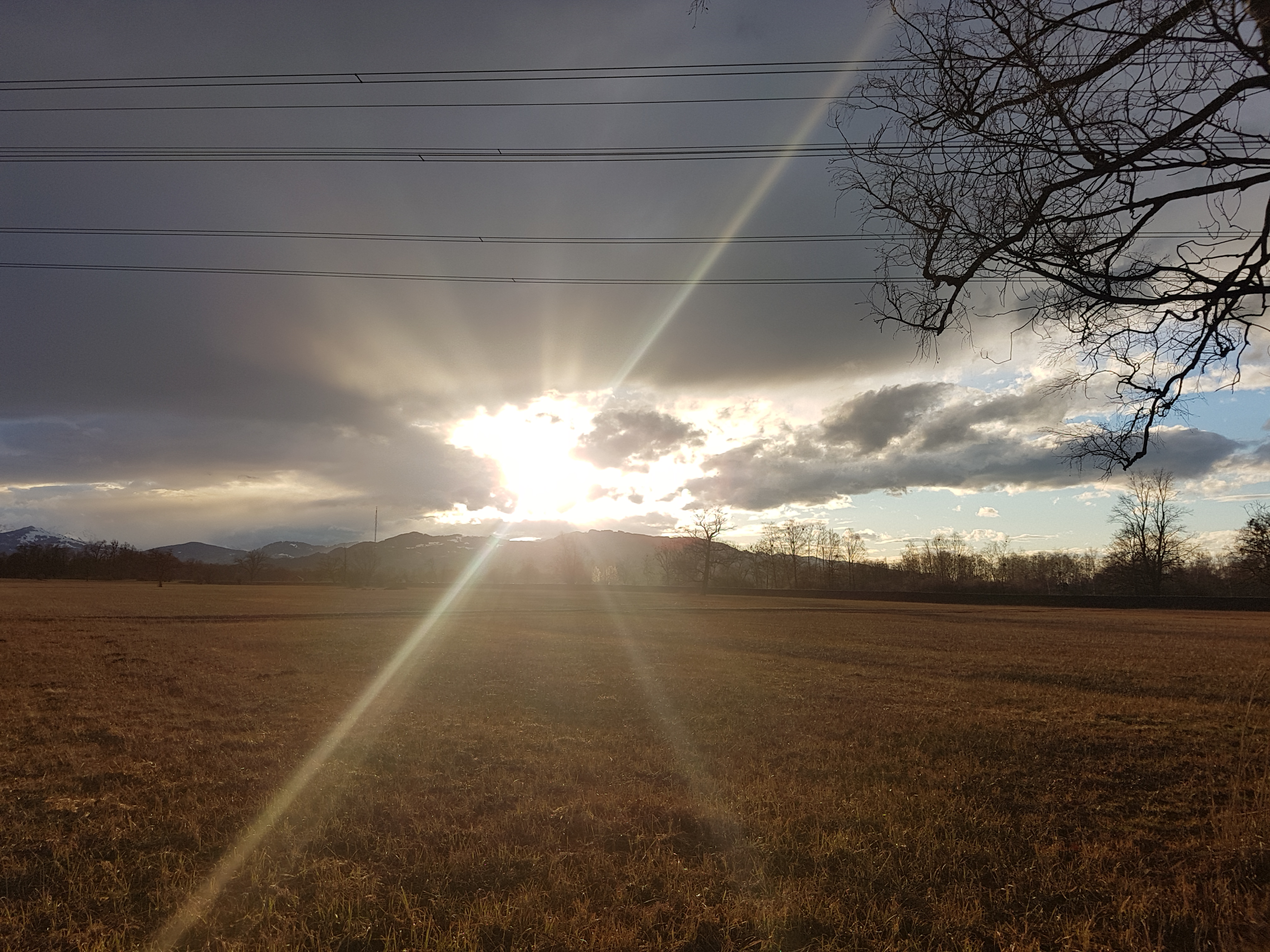 European nature reserve "Schwarzes Zeug" in Vorarlberg, Austria.